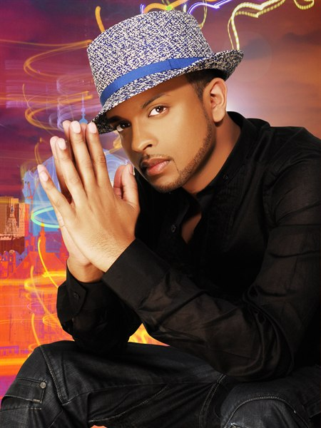 Mumzy Stranger, British Bangladeshi R&B soul singer